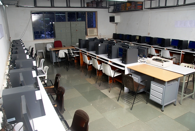 data warehousing and mining lab of rizvi college of engineering's computer engineering department.